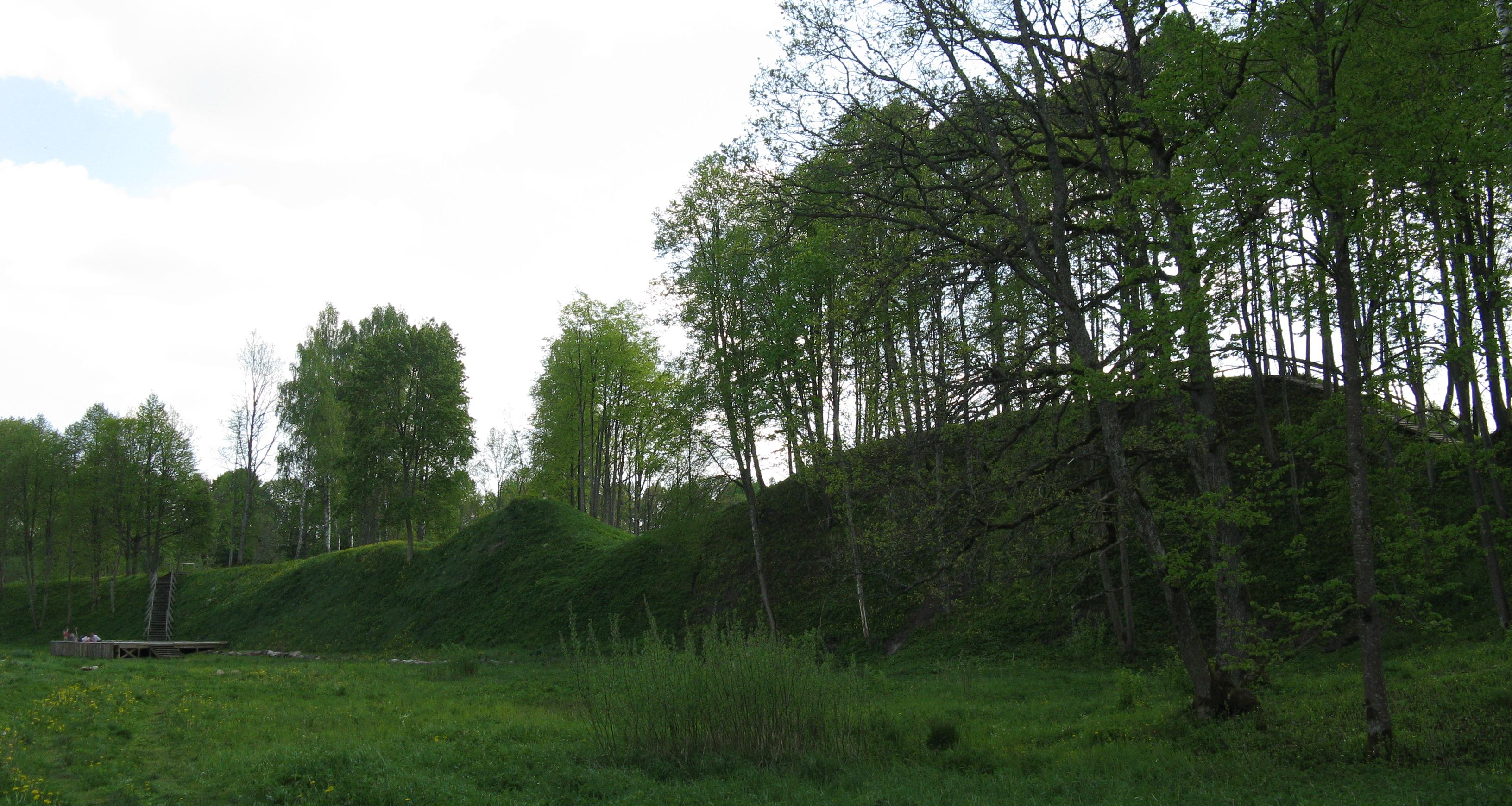 Molavėnai-Graužai Hillfort, a possible location of Pilėnai